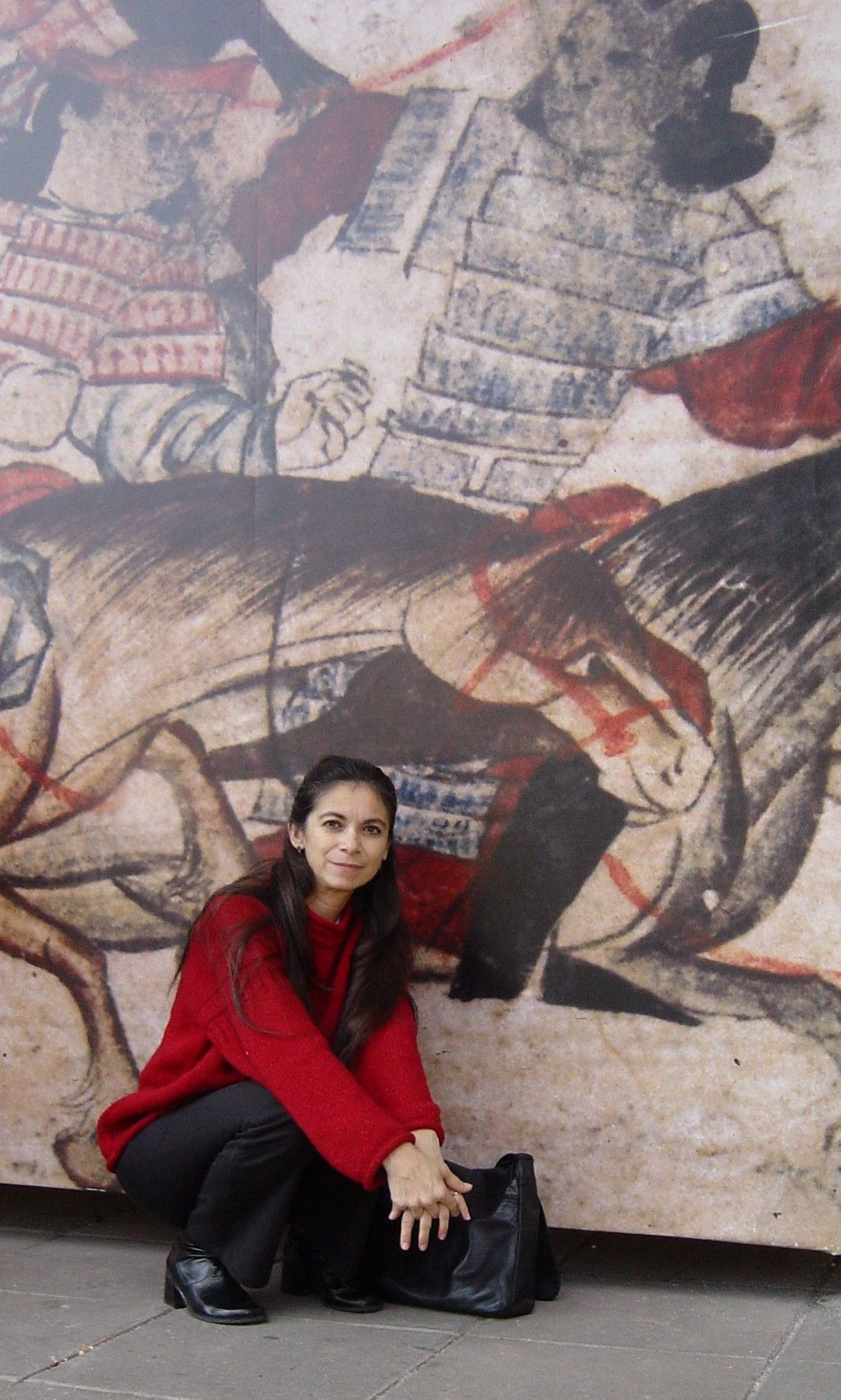 Mexican Writer Carmen Boullosa in Leoben (Austria), 2002